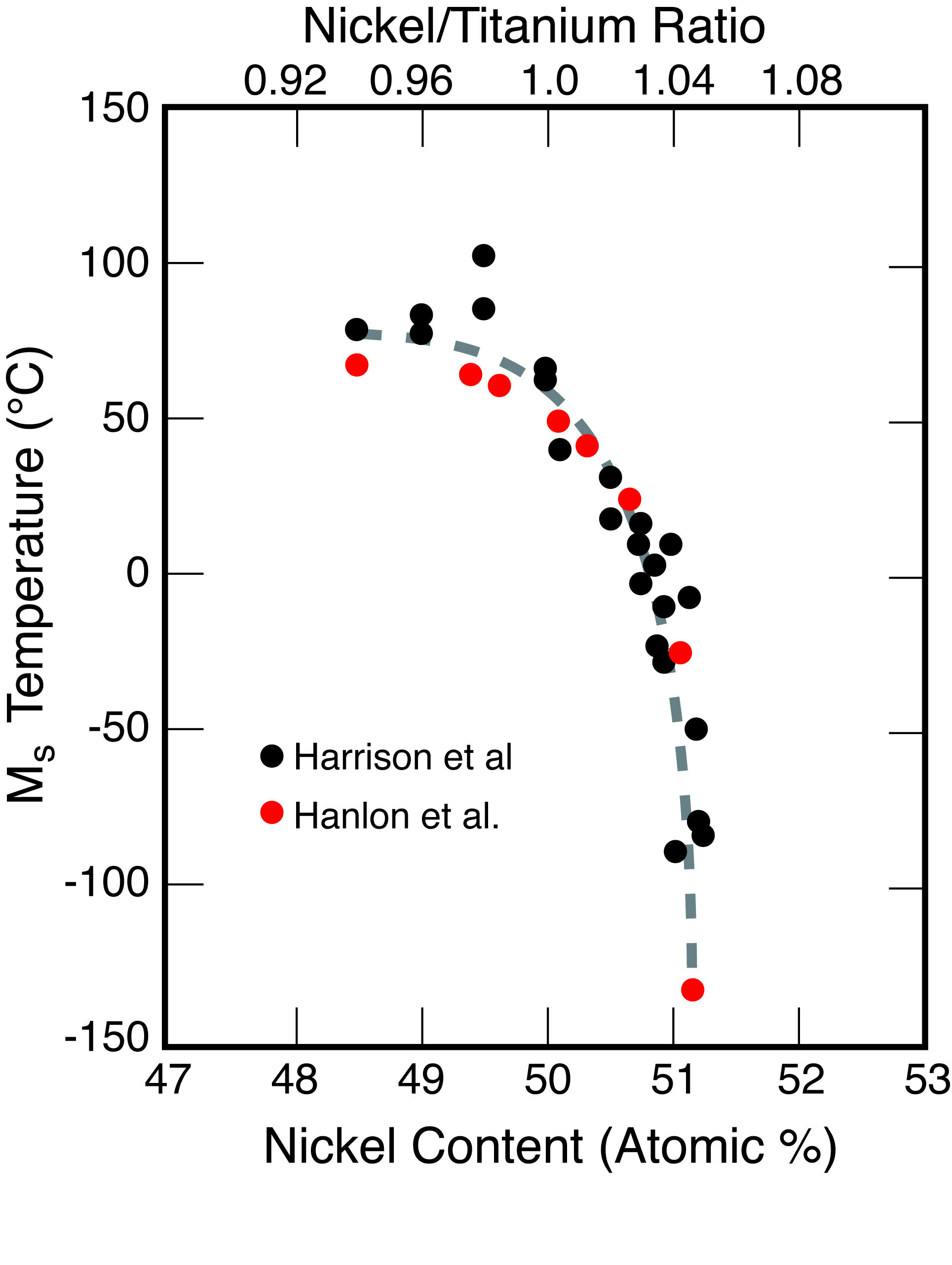 Graph of transformation temperature versus composition